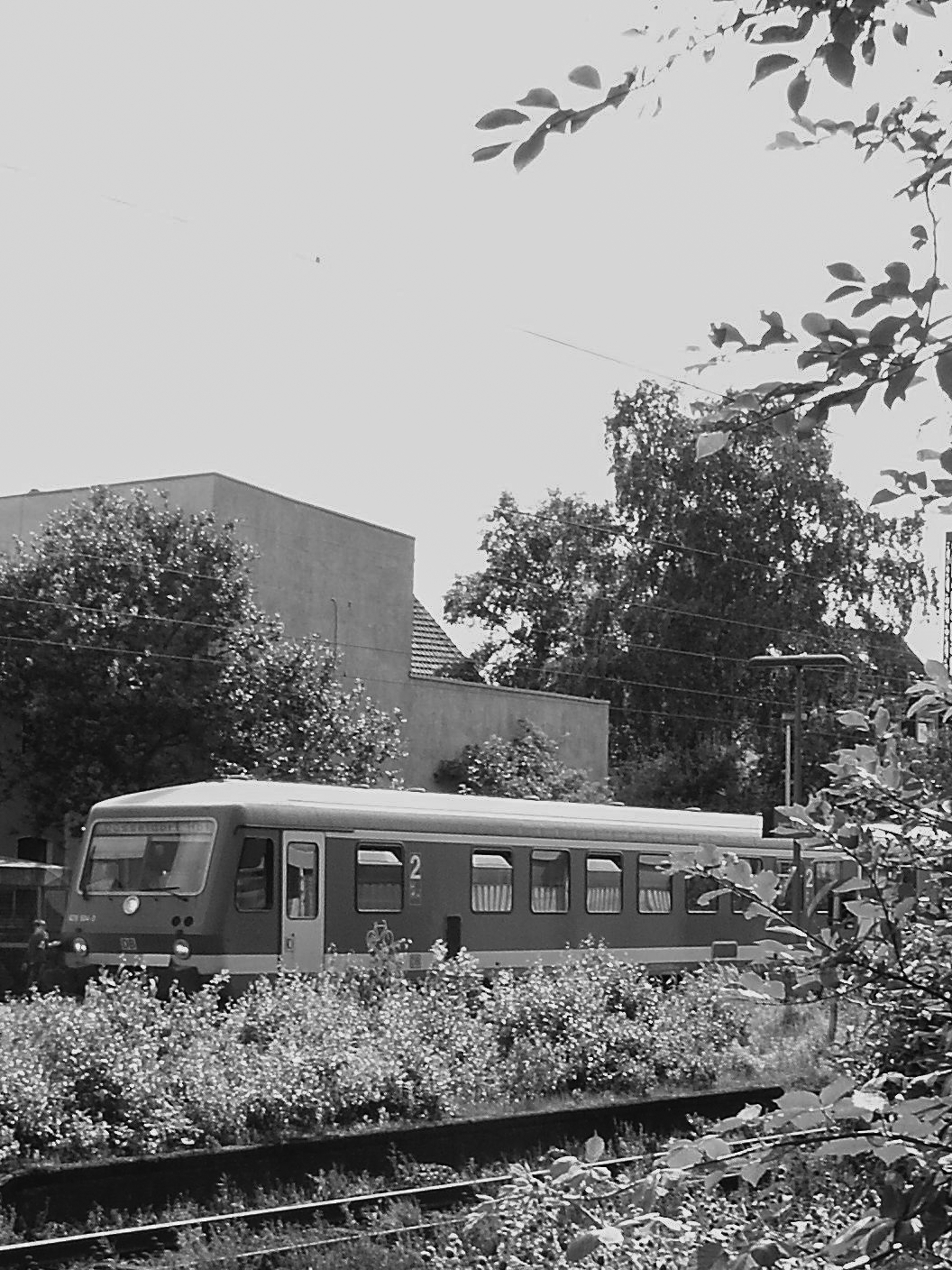 Niers-Express (RE10)